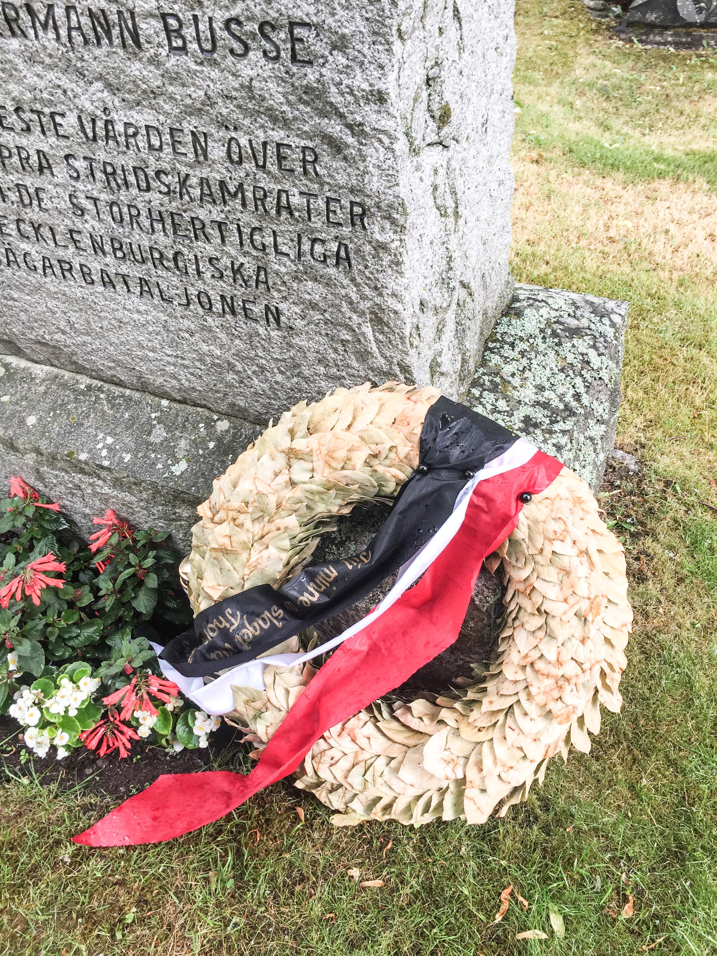 Commemorating German casualties after the fights in Nagu 4.4.1918